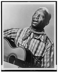 Huddie Ledbetter (Lead Belly), half-length portrait, facing left, holding guitar / World Telegram & Sun photo by Austin Wilder.